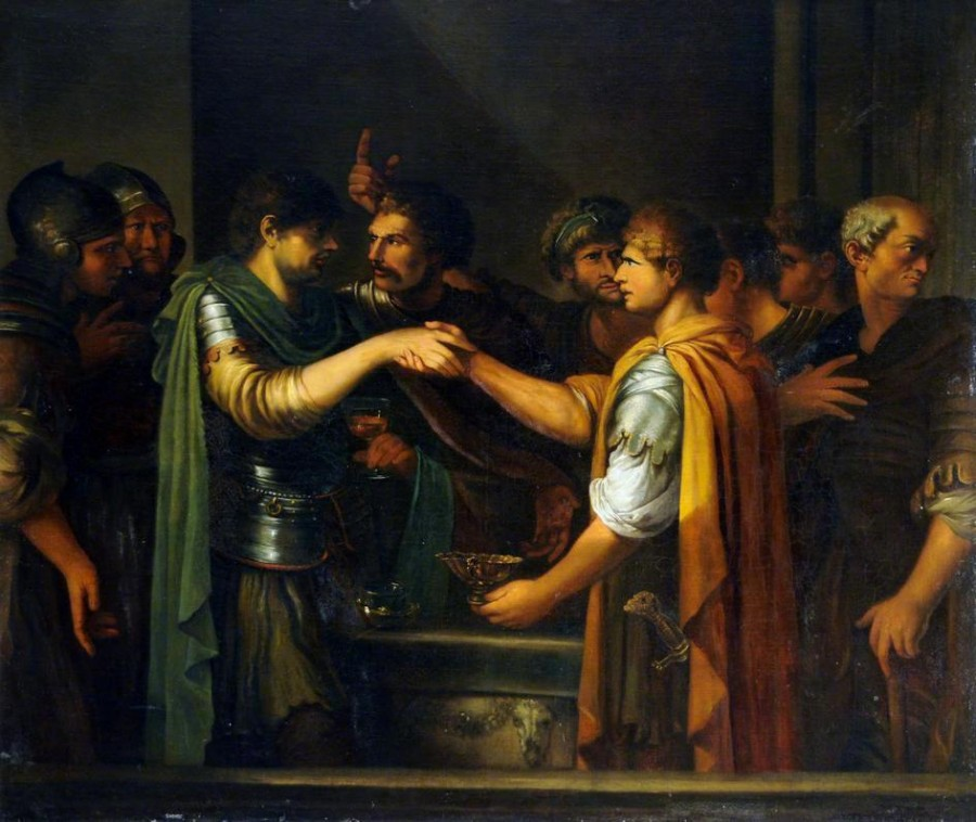 The oath of Catiline.label QS:Len,"The oath of Catiline." label QS:Lit,"La congiura di Catilina."